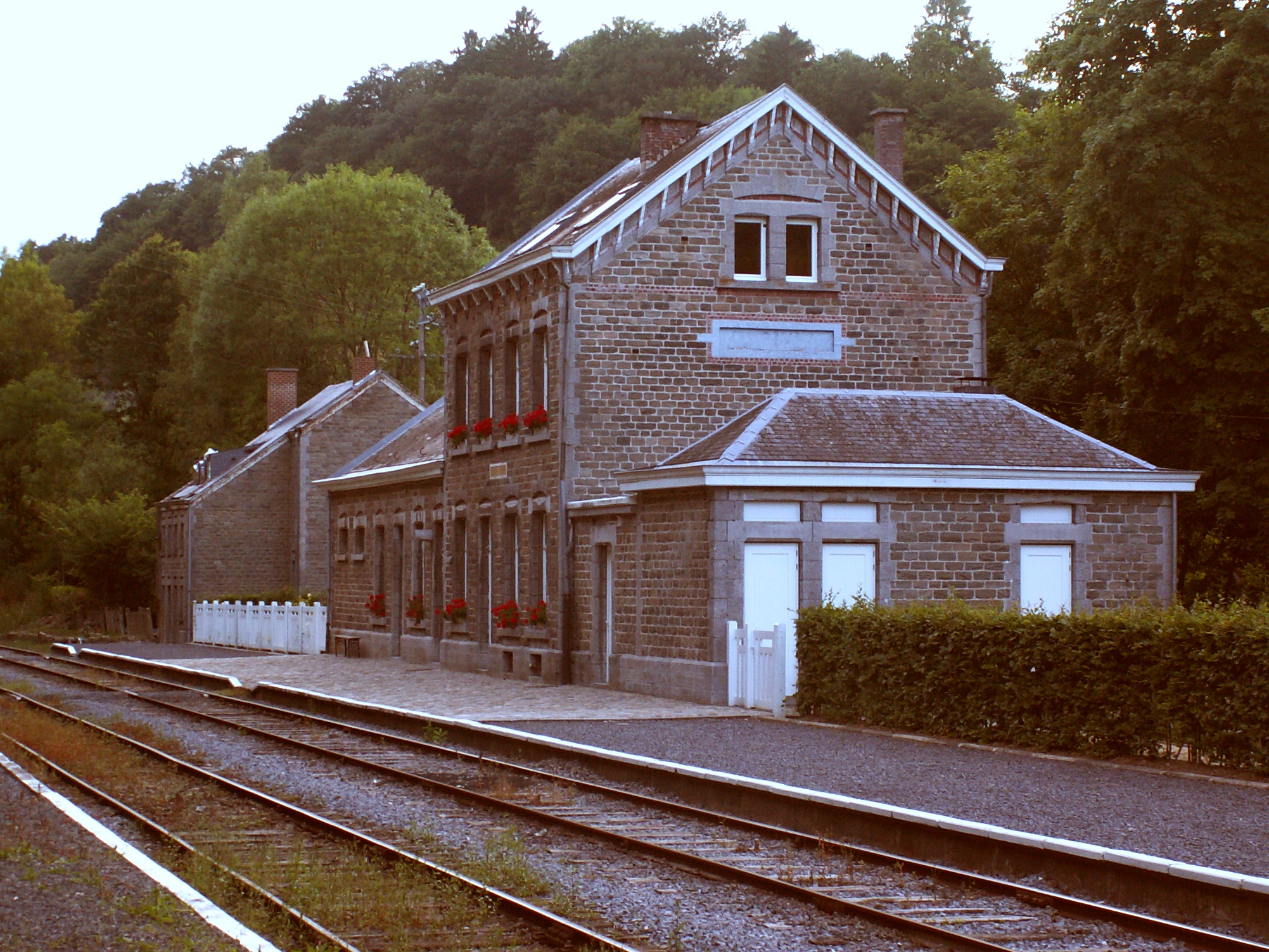 The Station of Dorinne-Durnal, along former Belgian railway line 128. This line is used for touristic traffic by Touristic Railway Heritage (PFT-TSP). The station is situated between the villages of Dorinne and Durnal. It was formerly connected through a vicinity tramway line, as many villages of Belgium. The station has been bought by a member of this association who gives it back its original railway outward appearance (just check other photographs on wikimedia commons to compare)